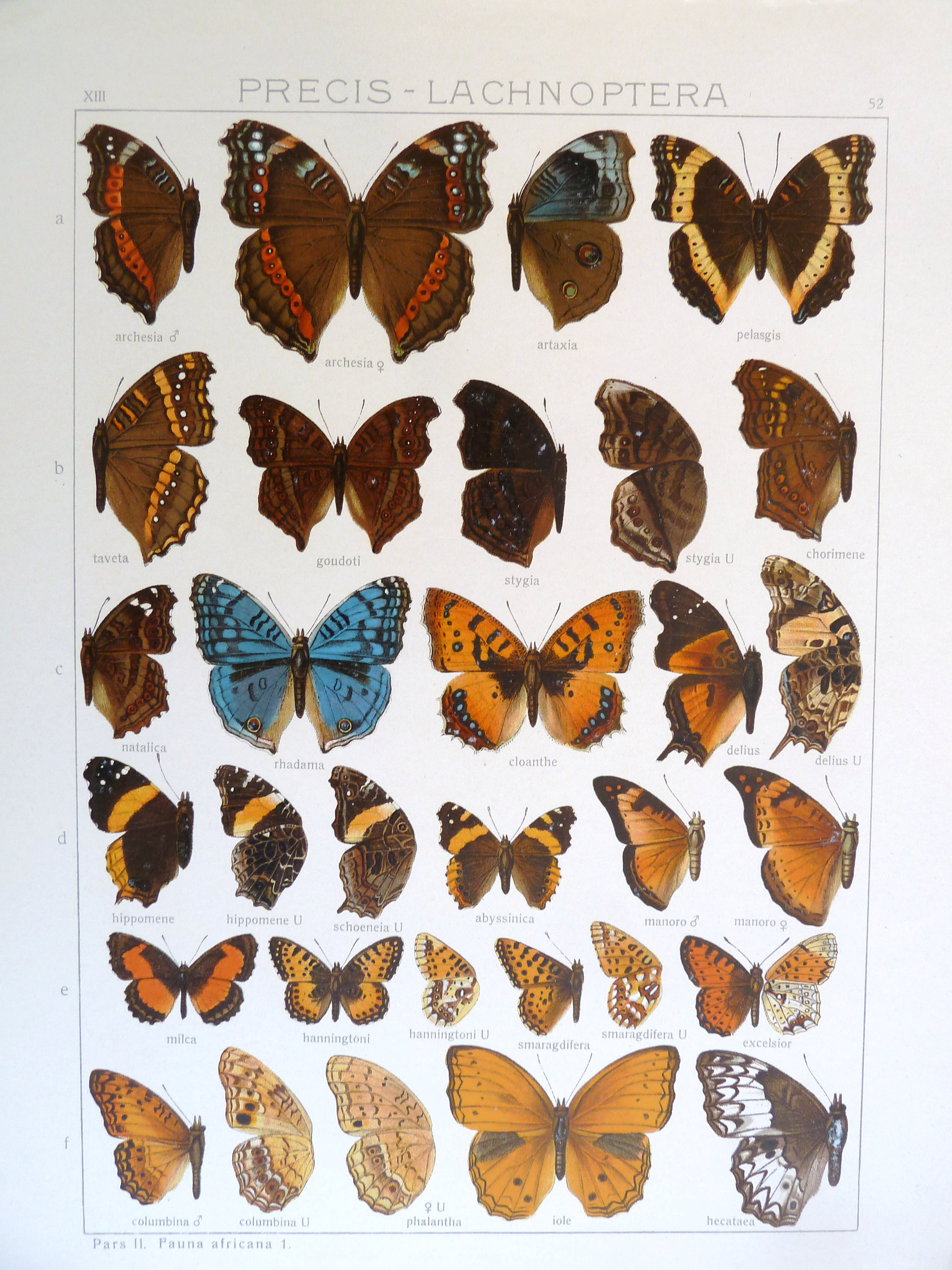 Adalbert Seitz Die Gross-Schmetterlinge der Erde 13: Die Afrikanischen Tagfalter. Plate XIII 52 a Precis archesia, ♂ (dry season form, f. archesia) Precis archesia, ♀ (dry season form, f. archesia) Junonia artaxia Vanessa pelasgis Godart, [1824], synonym for Precis archesia (Cramer, [1779]) f. pelasgis (i.e. wet season form) b Precis limnoria taveta Rogenhofer, 1891 goudoti = Junonia goudotii Junonia stygia Junonia stygia, U Junonia chorimene c Junonia natalica Junonia rhadama Catacroptera cloanthe Antanartia delius Antanartia delius, U d Vanessa hippomene Vanessa hippomene, U schoeneia, U, misspelling of Antanartia schaeneia, U Vanessa abyssinica Smerina manoro (Ward, 1871), ♂ Smerina manoro (Ward, 1871), ♀ e Vanessula milca Issoria hanningtoni Issoria hanningtoni, U Issoria smaragdifera Issoria smaragdifera, U Issoria baumanni excelsior (Butler, 1896) f Papilio columbina (Cramer, [1779]), ♂, synonym for Phalanta phalantha (Drury, [1773]), ♂ Papilio columbina (Cramer, [1779]), U, synonym for Phalanta phalantha (Drury, [1773]), U Phalanta phalantha (Drury, [1773]), U Papilio iole (Fabricius, 1781), ♀U, synonym for Lachnoptera anticlia (Hübner, 1819), ♀U Harma hecataea Hewitson, 1877, synonym for Lachnoptera anticlia (Hübner, 1819)